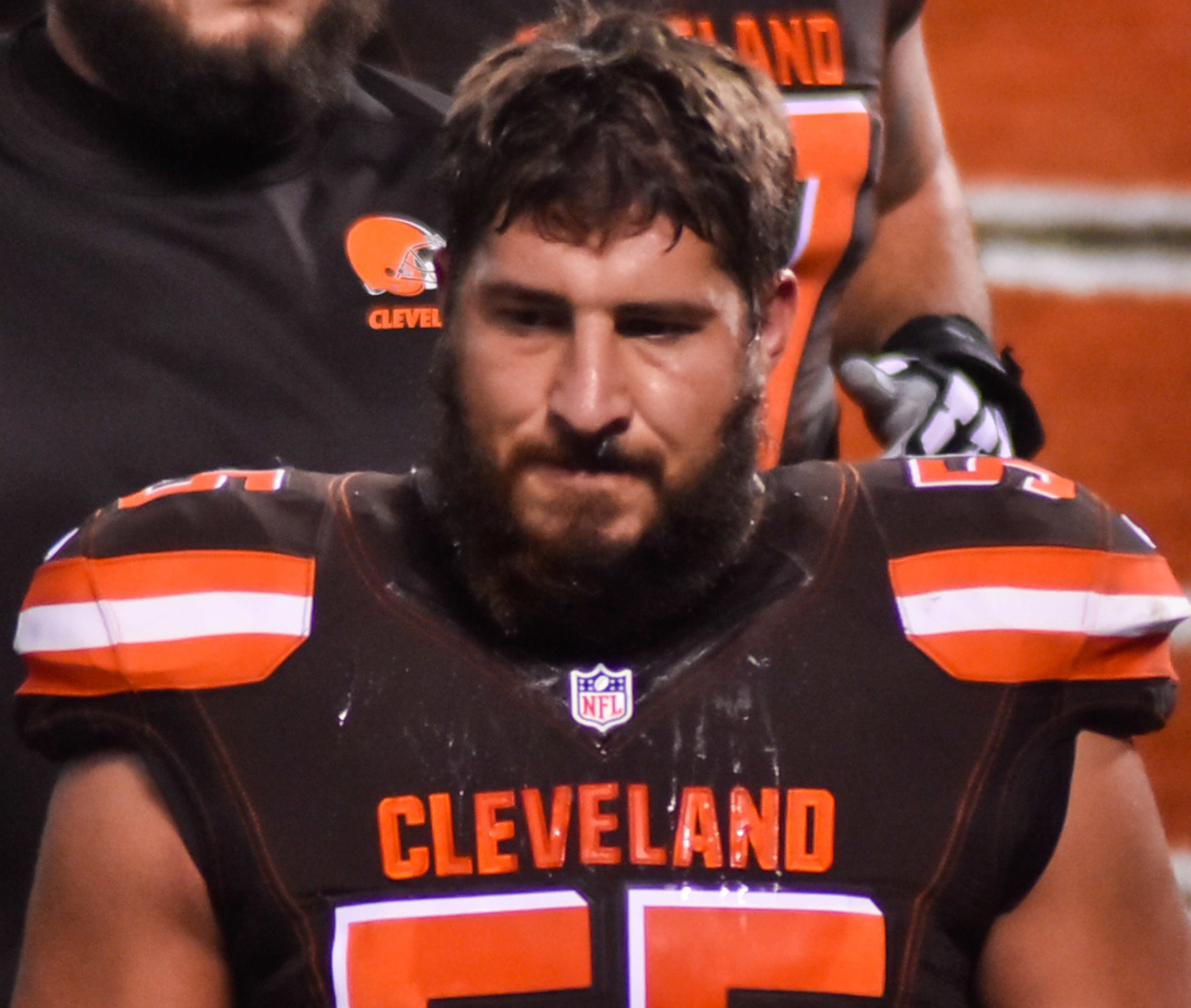 Alex Mack